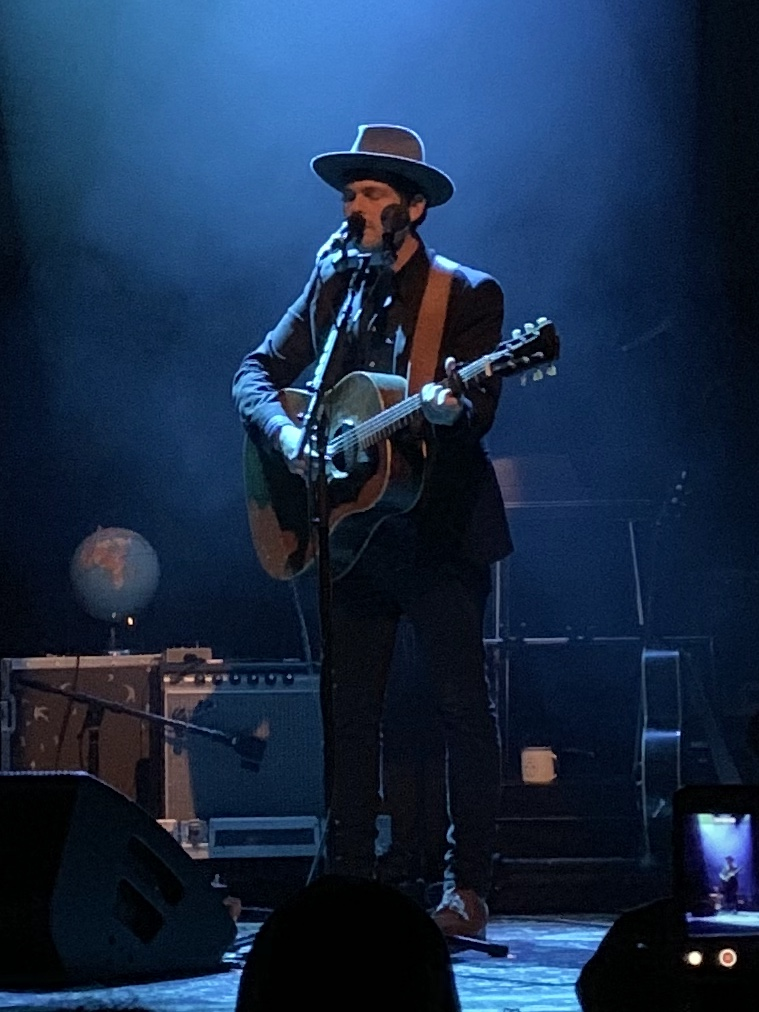 Singer songwriter performs at The Fillmore in San Francisco on February 14, 2019